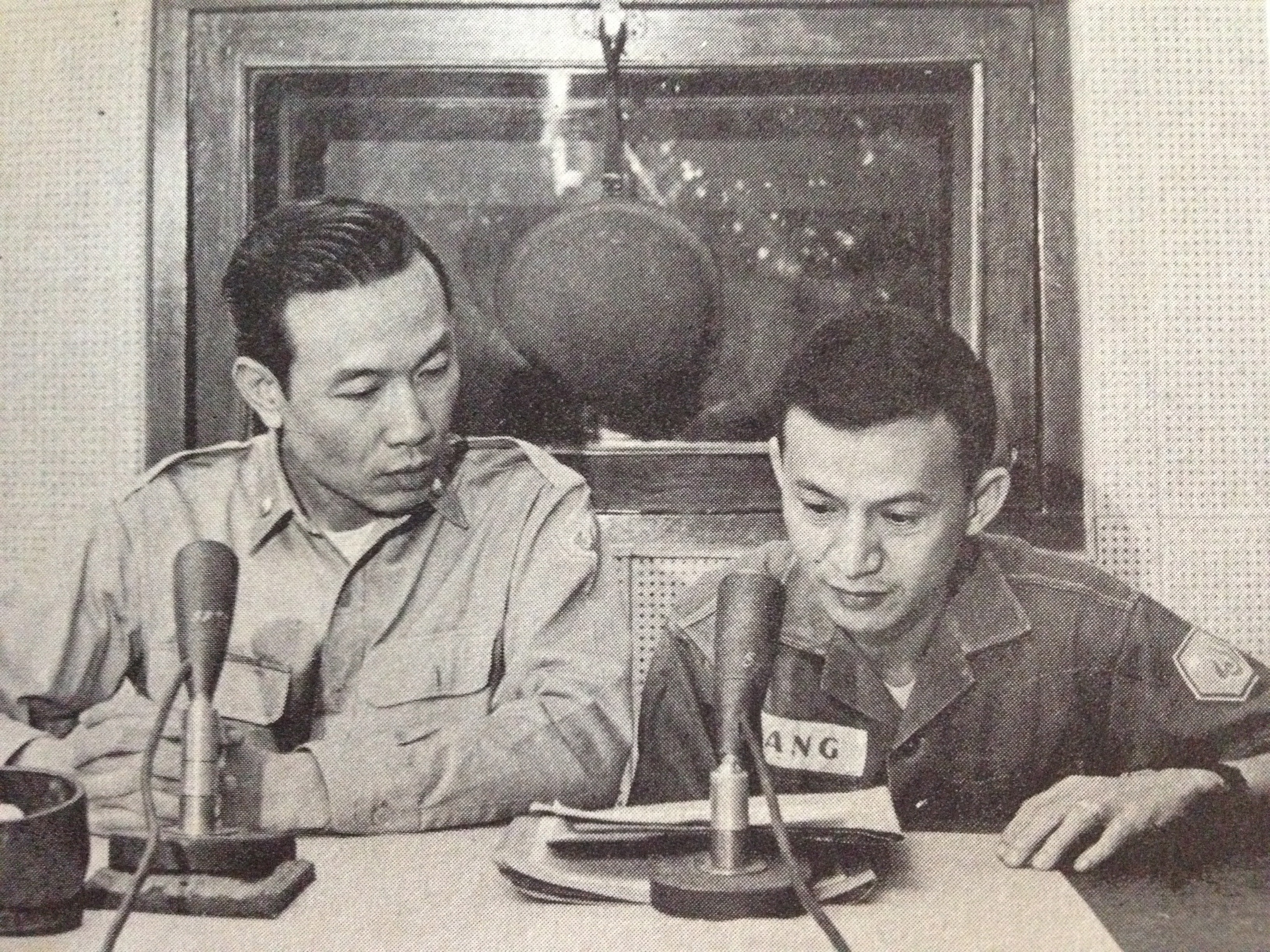 Nhat-bang and Anh-ngoc, newscasters for Radio of Vietnam, Armed Forces Broadcasting